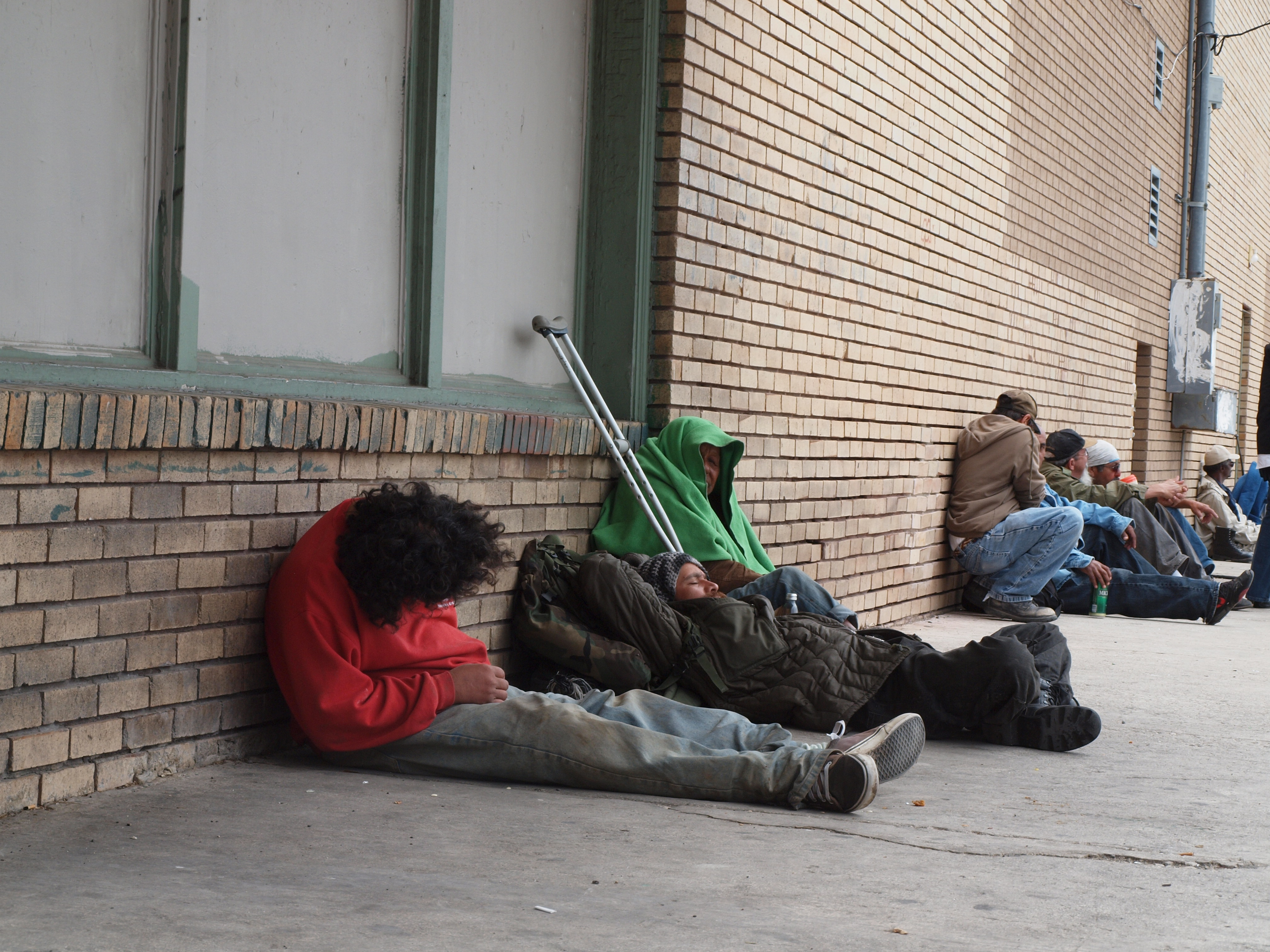 Homeless are in San Antonio, TX